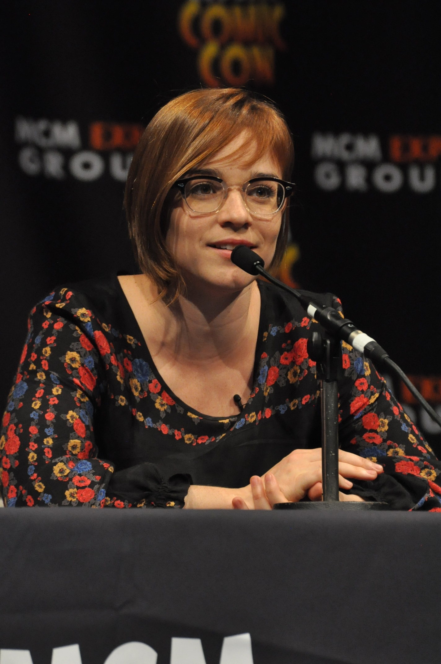 DSC_0832 MCM London Comic Con, NCIS Panel with Barrett Foa and Renée Felice Smith.